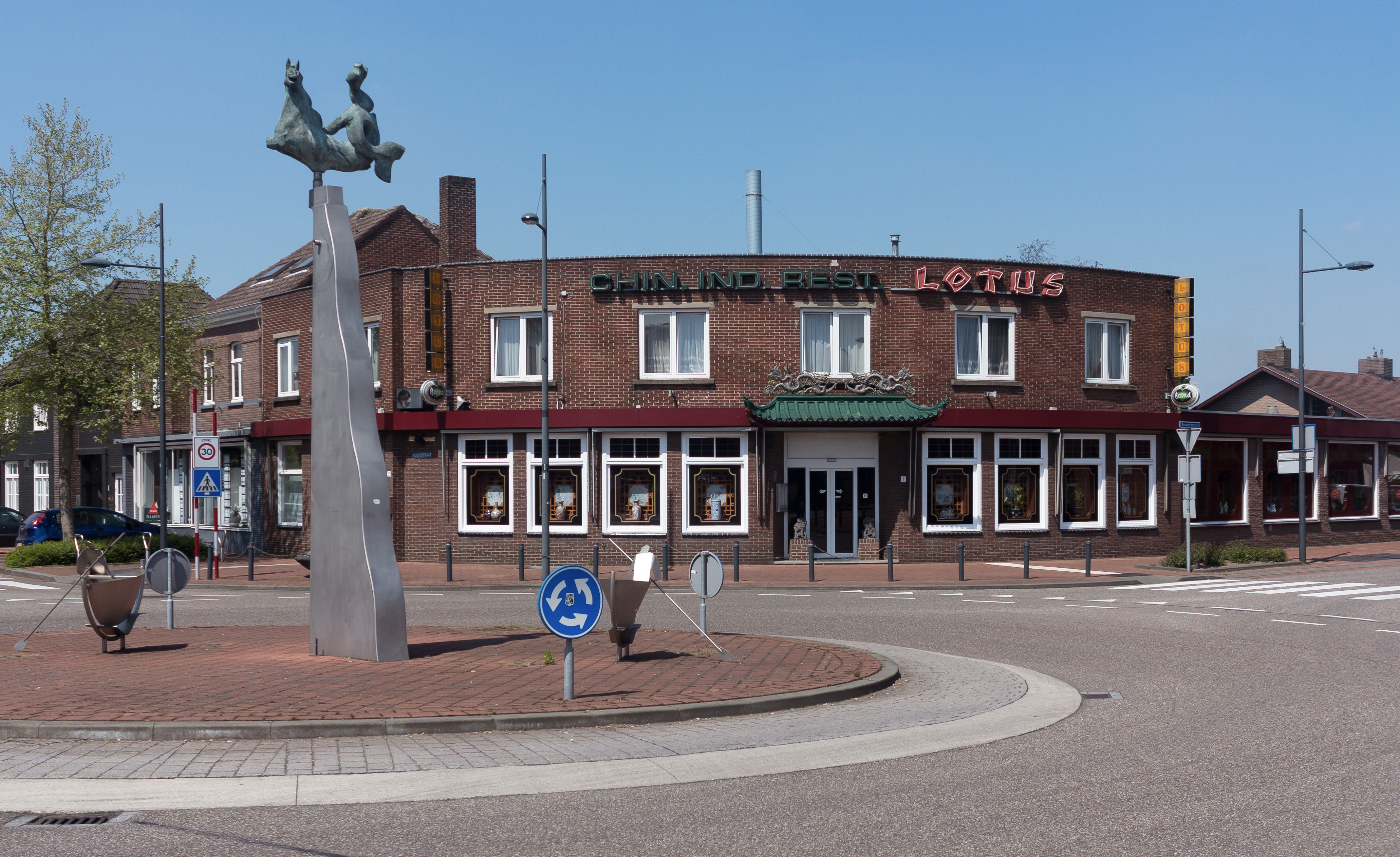 Maasbracht, sculptuur at roundabout with Chinese restaurant